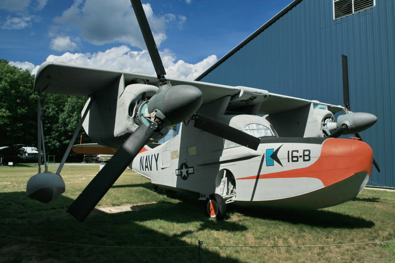 Kaman K-16B - This aircraft was one of the first "tilt wing" VTOL experiments. Each propeller blade has provisions for variable camber to allow it to function like a helicopter rotor when the wing is in the vertical position. This approach was one of many to address the VTOL/STOL requirements, but was not altogether successful.